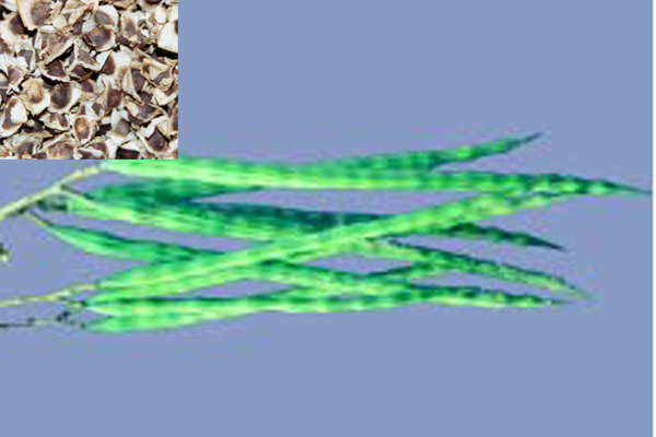 Moringa seed